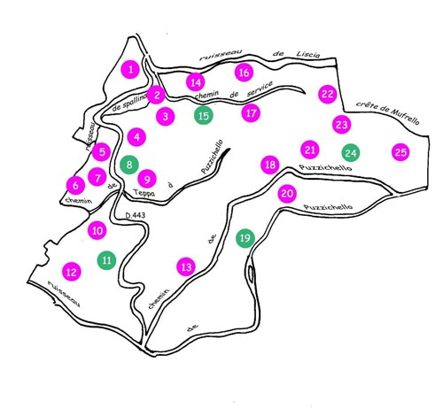 toponymie casevecchie